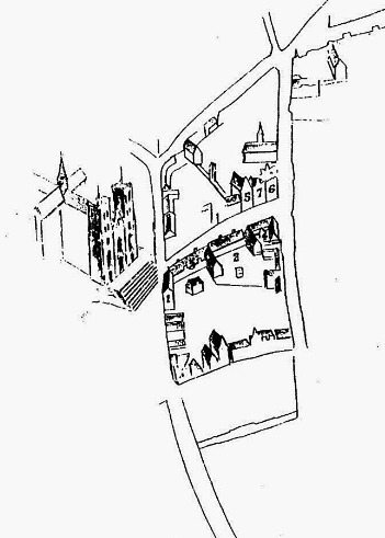 Drawing by Charles Ruelens of the beguinage of Heilwige Bloemardinne in Brussels (published in: Jozef Vercouillie. Werken van zuster Hadewijch, vol. 3., 1905)